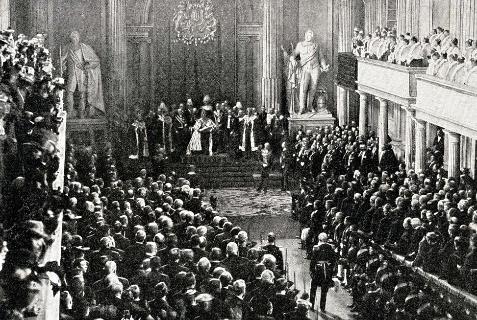 King Oscar II opens the Swedish Parliament in 1898; Place: Throne Room, Royal Palace, Stockholm, Sweden